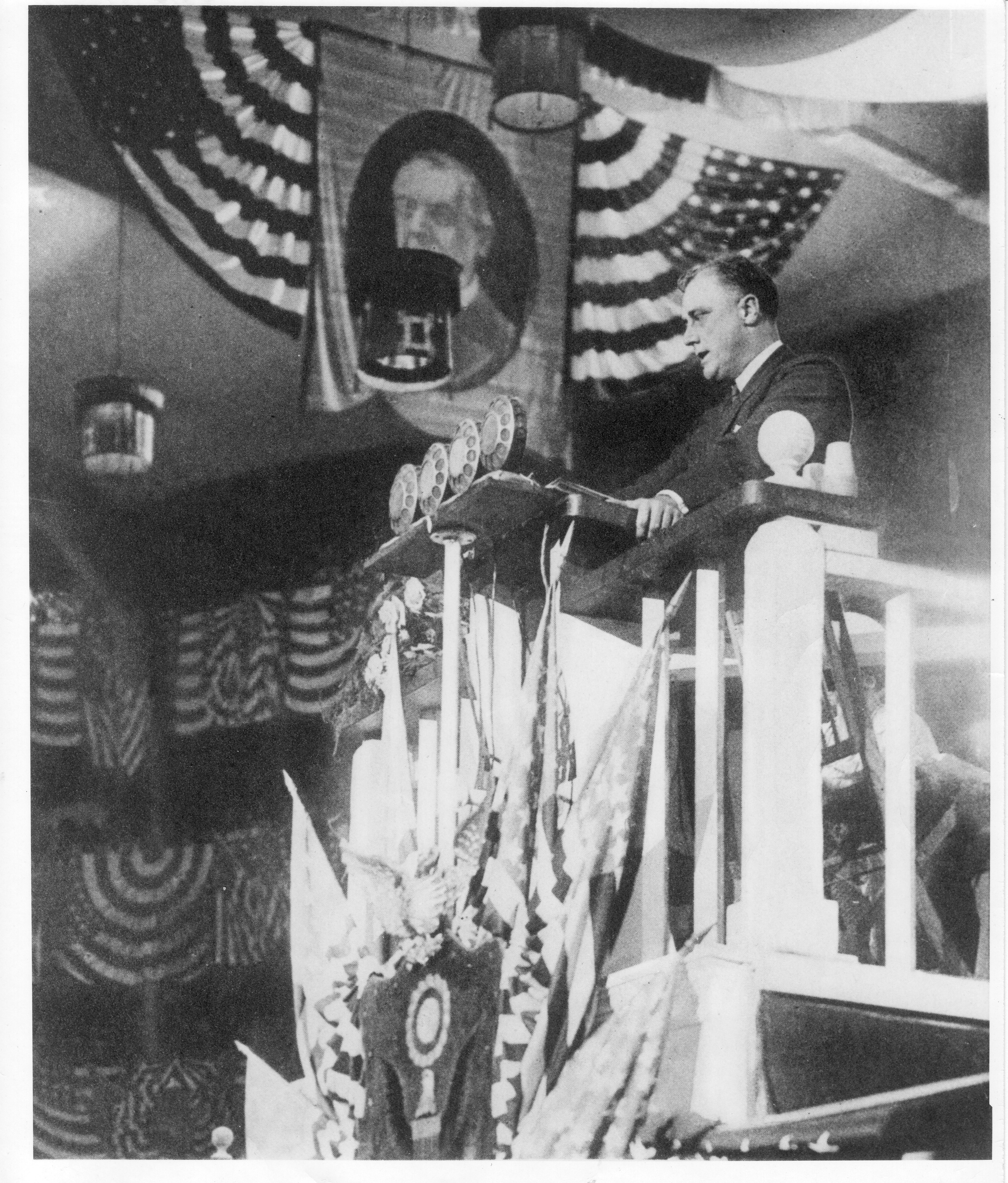 FDR delivers the nominating speech for Alfred E. Smith at the Democratic Convention at Madison Square Garden, New York, NY. June 26, 1924. This speech is often considered FDR's first major gesture of re-entry into national politics after recovering from the onset of polio.